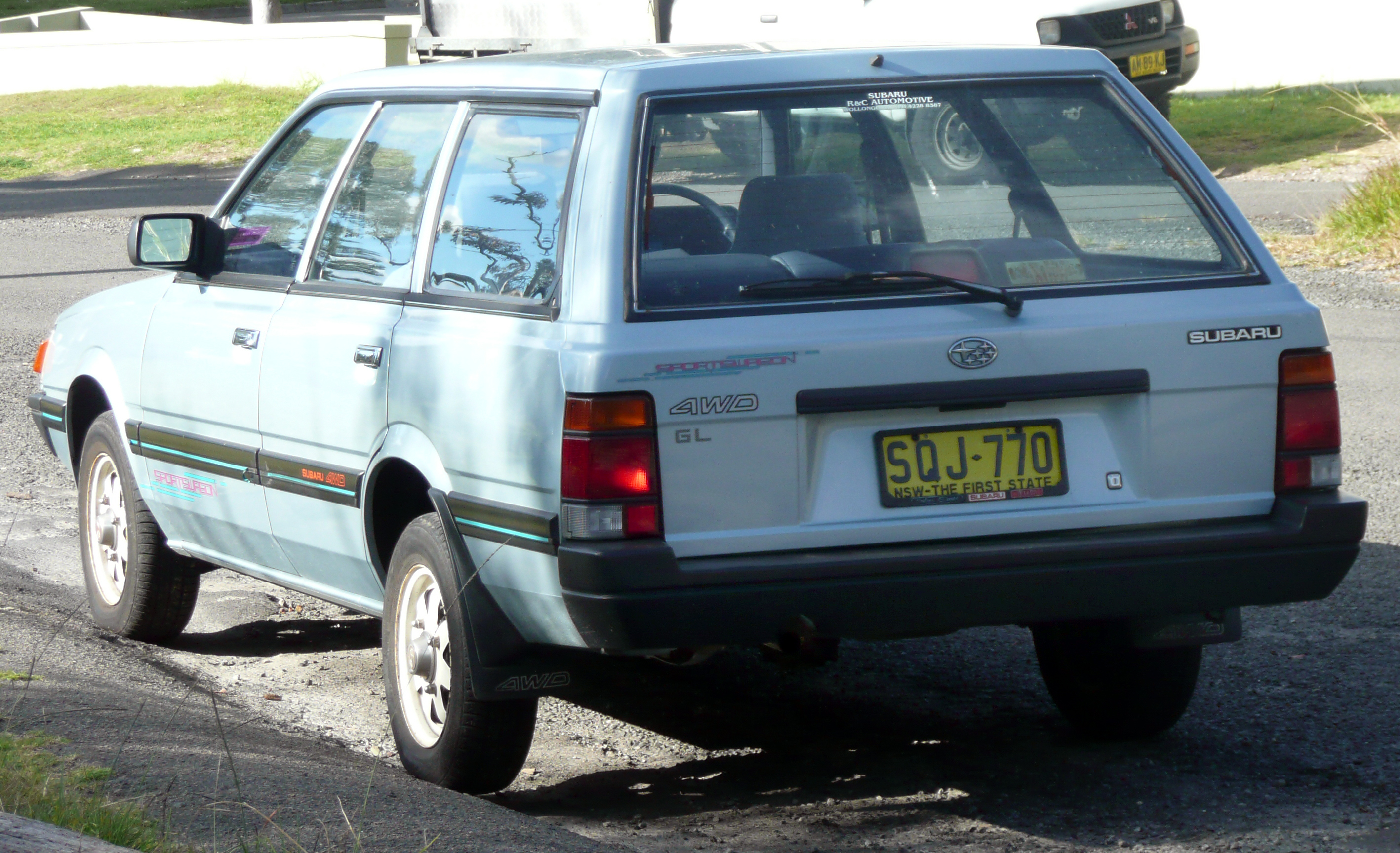 1993 Subaru L Series GL Sportswagon station wagon. Photographed in Grays Point, New South Wales, Australia.